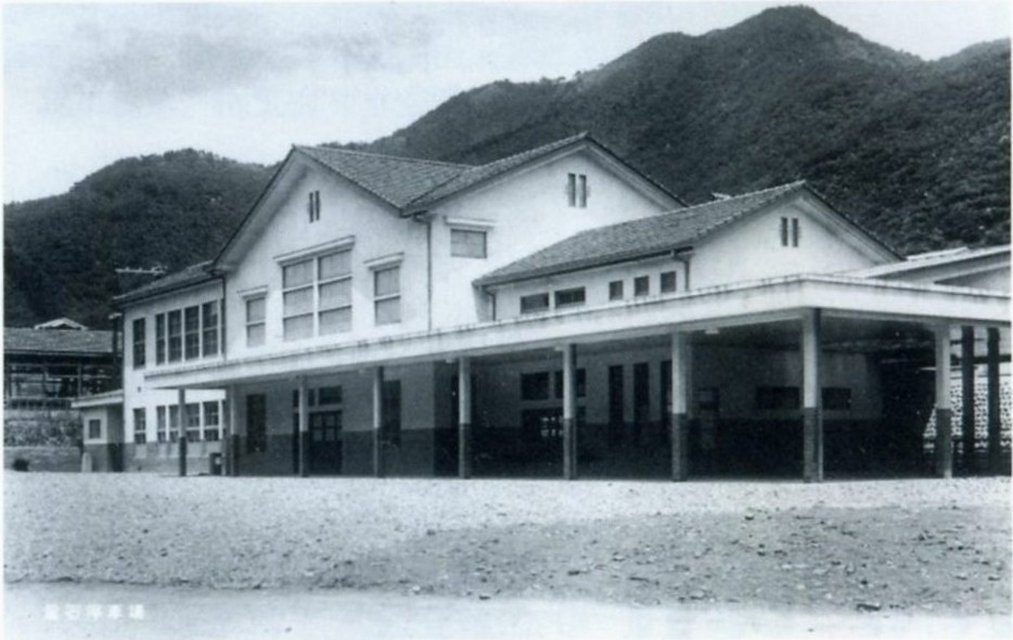 Yamada Line Kamaishi Station